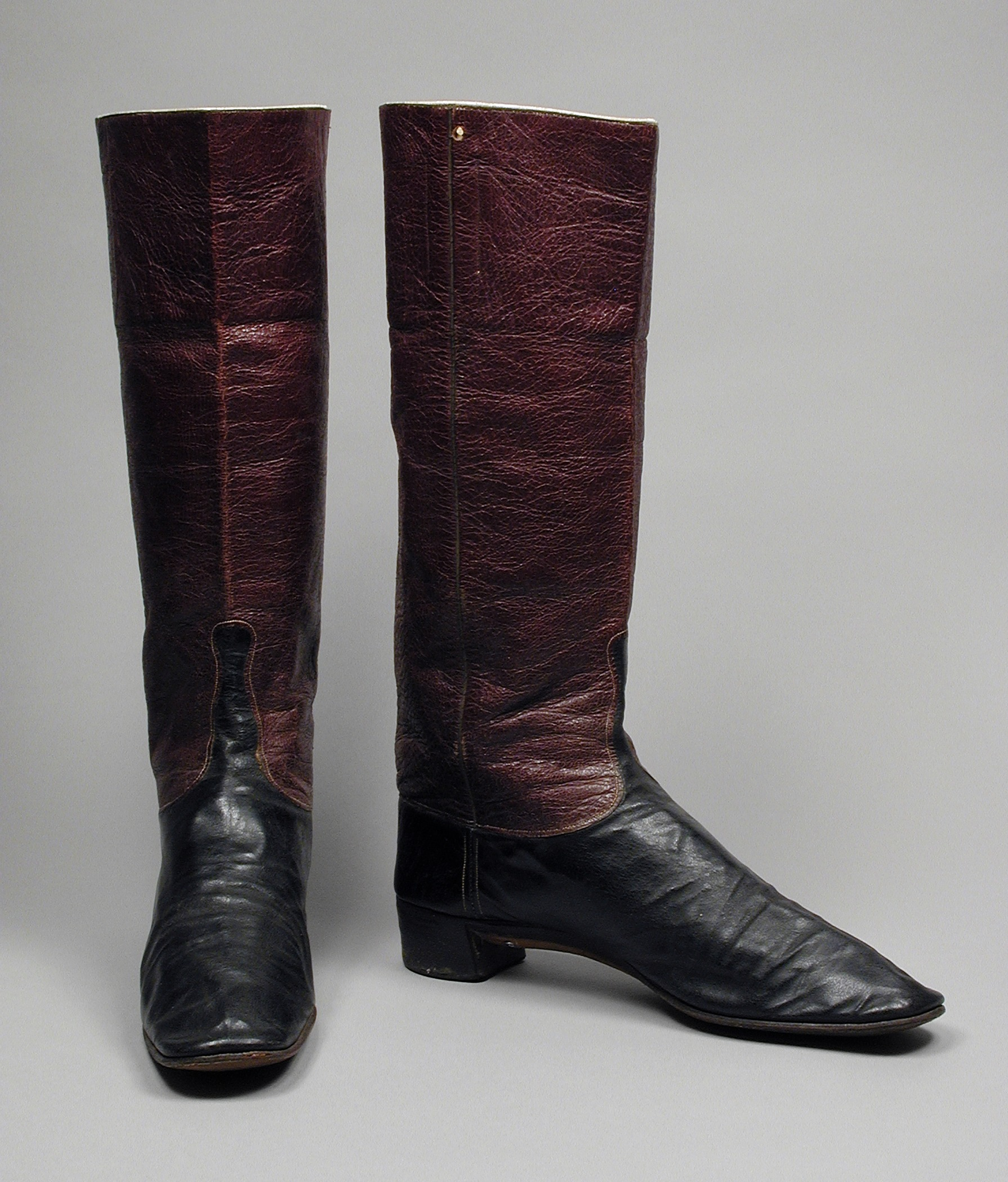 Probably England, circa 1845 Costumes; Accessories Patent leather, leather, sueded leather Height: 14 1/4 in. (36.2 cm); Length: 10 in. (25.4 cm) each Mrs. Alice F. Schott Bequest (M.67.8.139a-b) Costume and Textiles